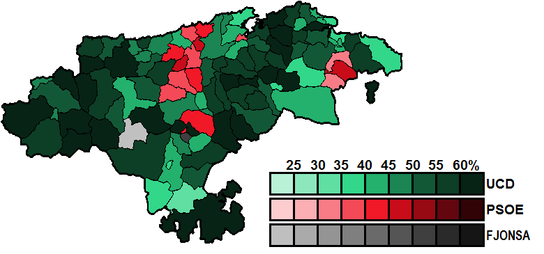 Most-voted party in Cantabria municipalities, showing vote share obtained, in the Spanish general election, 1979.